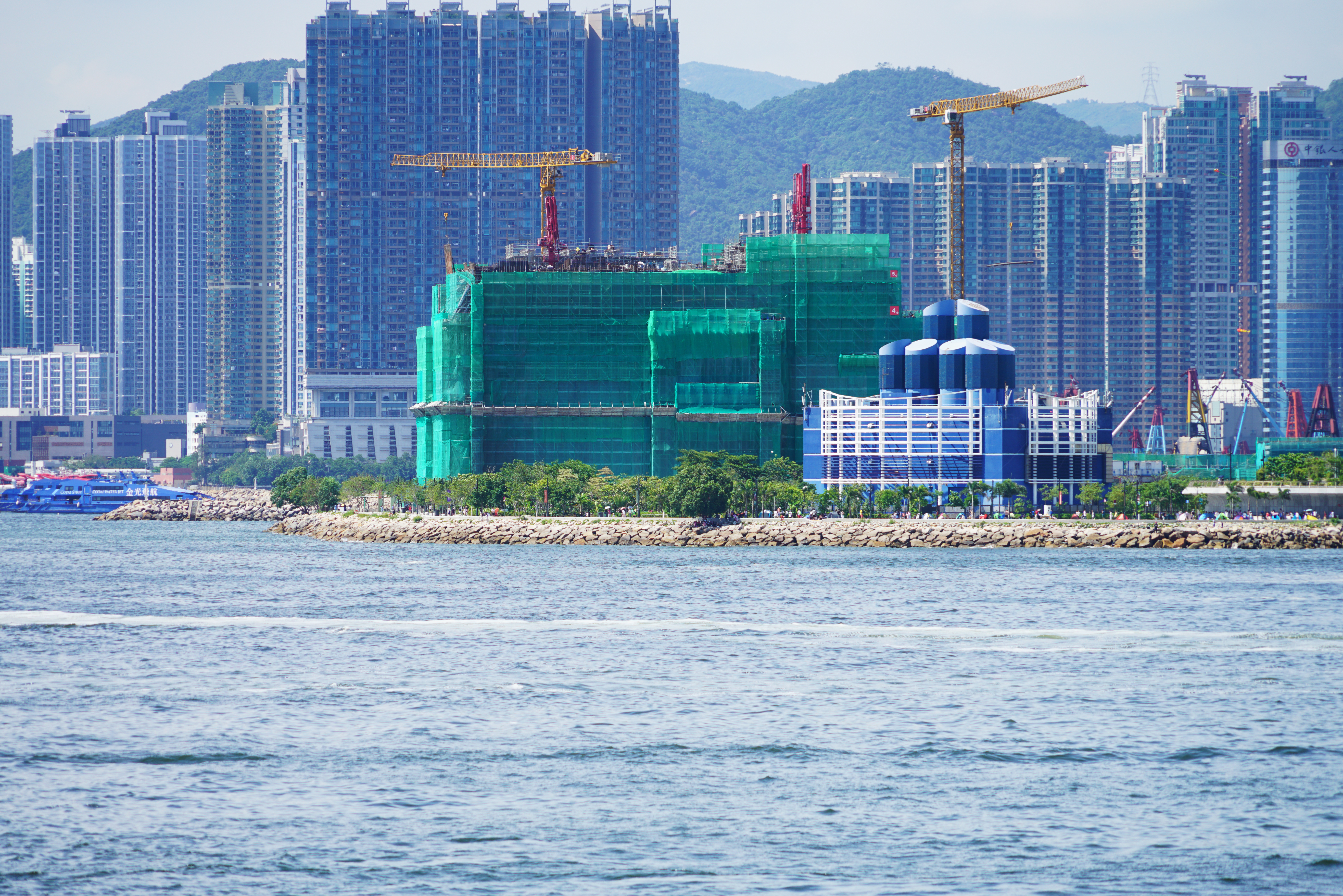 Hong Kong Palace Museum.